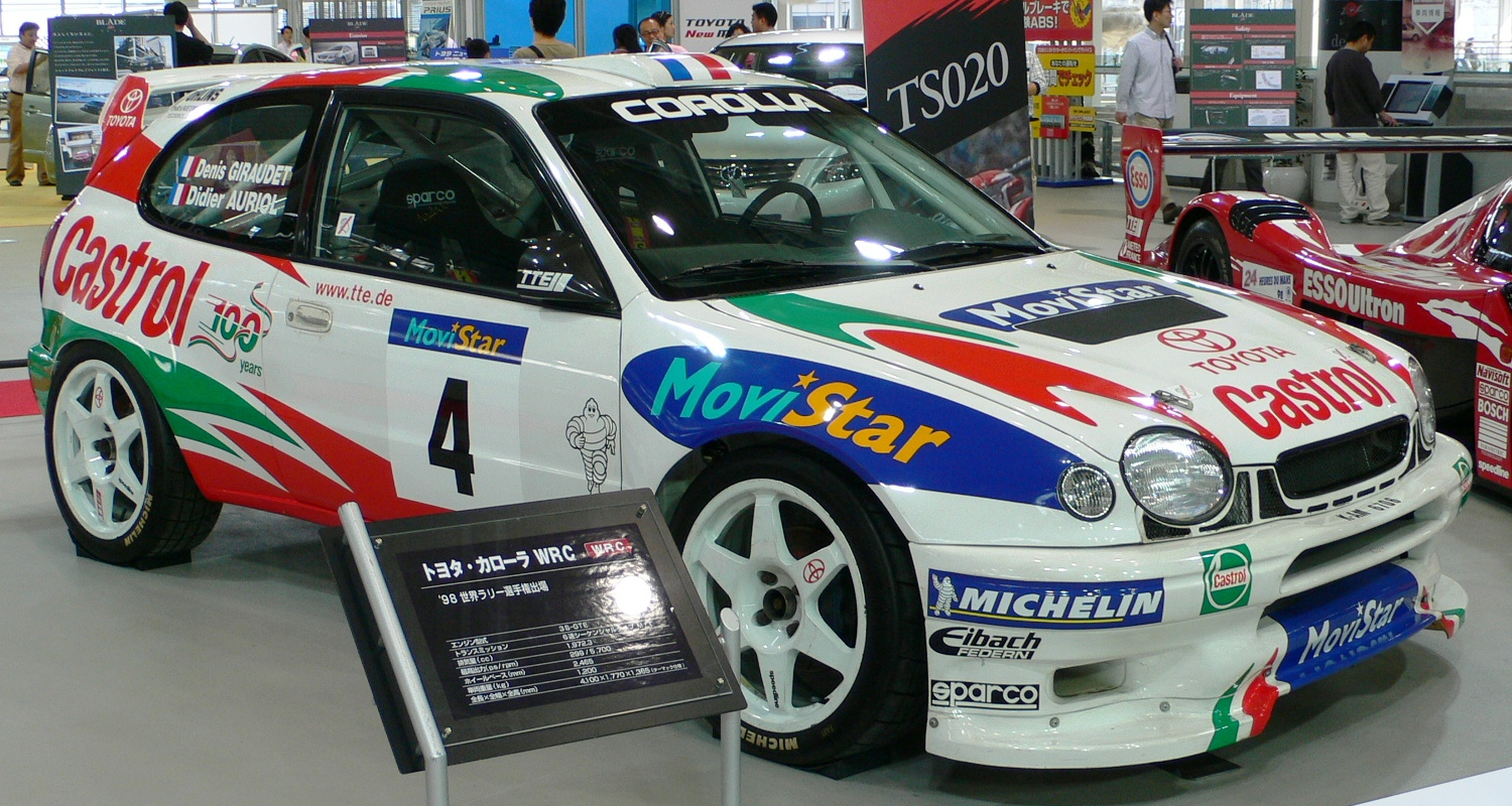 Toyota_Corolla(WRC 1999) photographed in MEGAWEB.